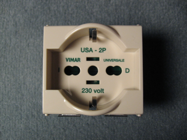 A VIMAR brand universale socket